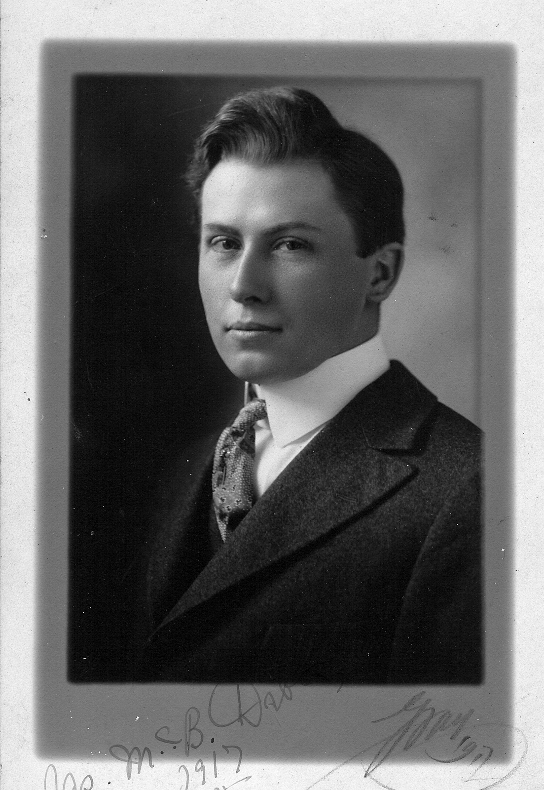 Photo signed by a possible "M.S.B. Dabbs" in 1917